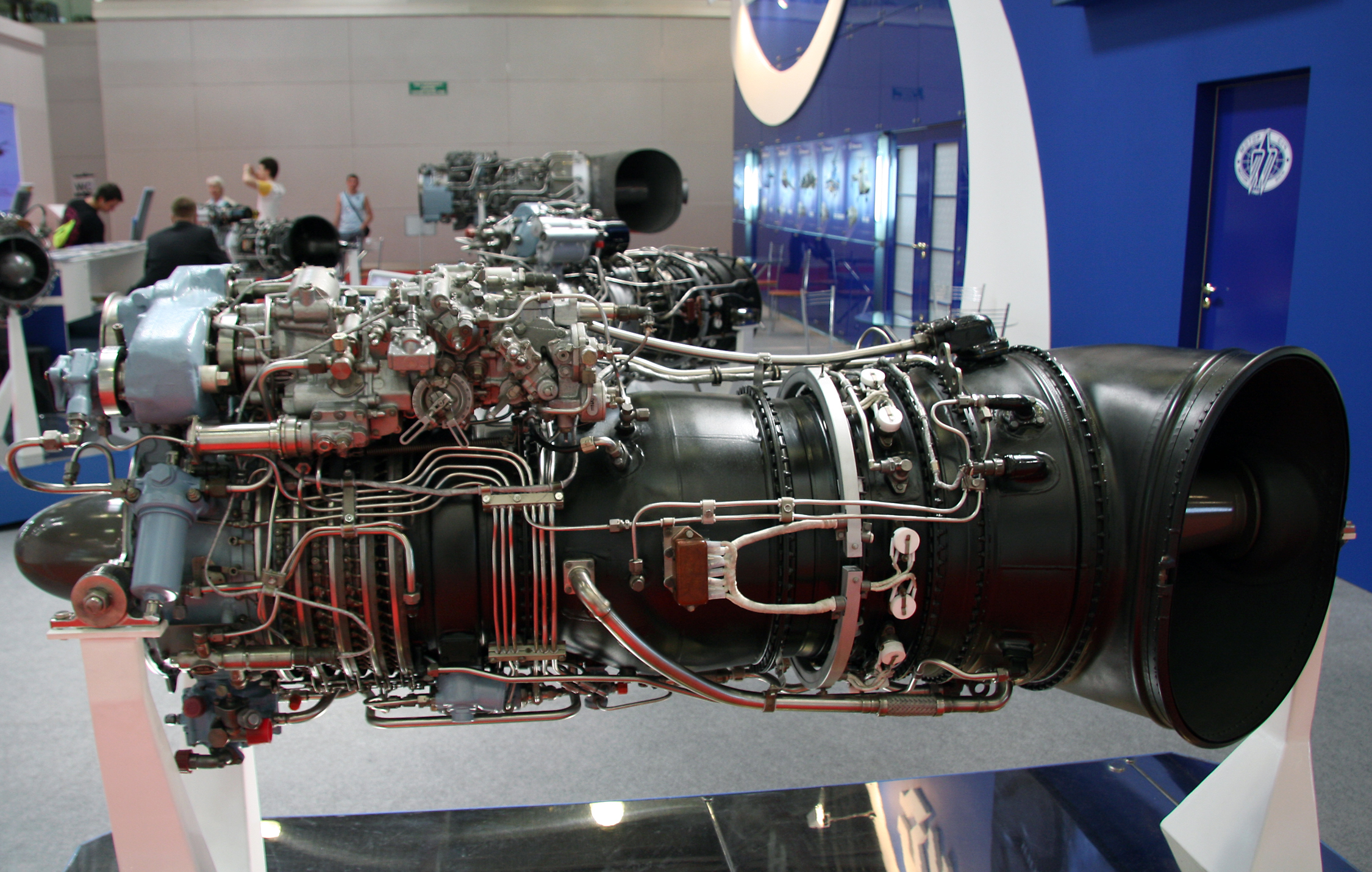 Turboshaft engine TV3-117VMA-SBM1V at Third International Helicopter Industry Exhibition HeliRussia 2010